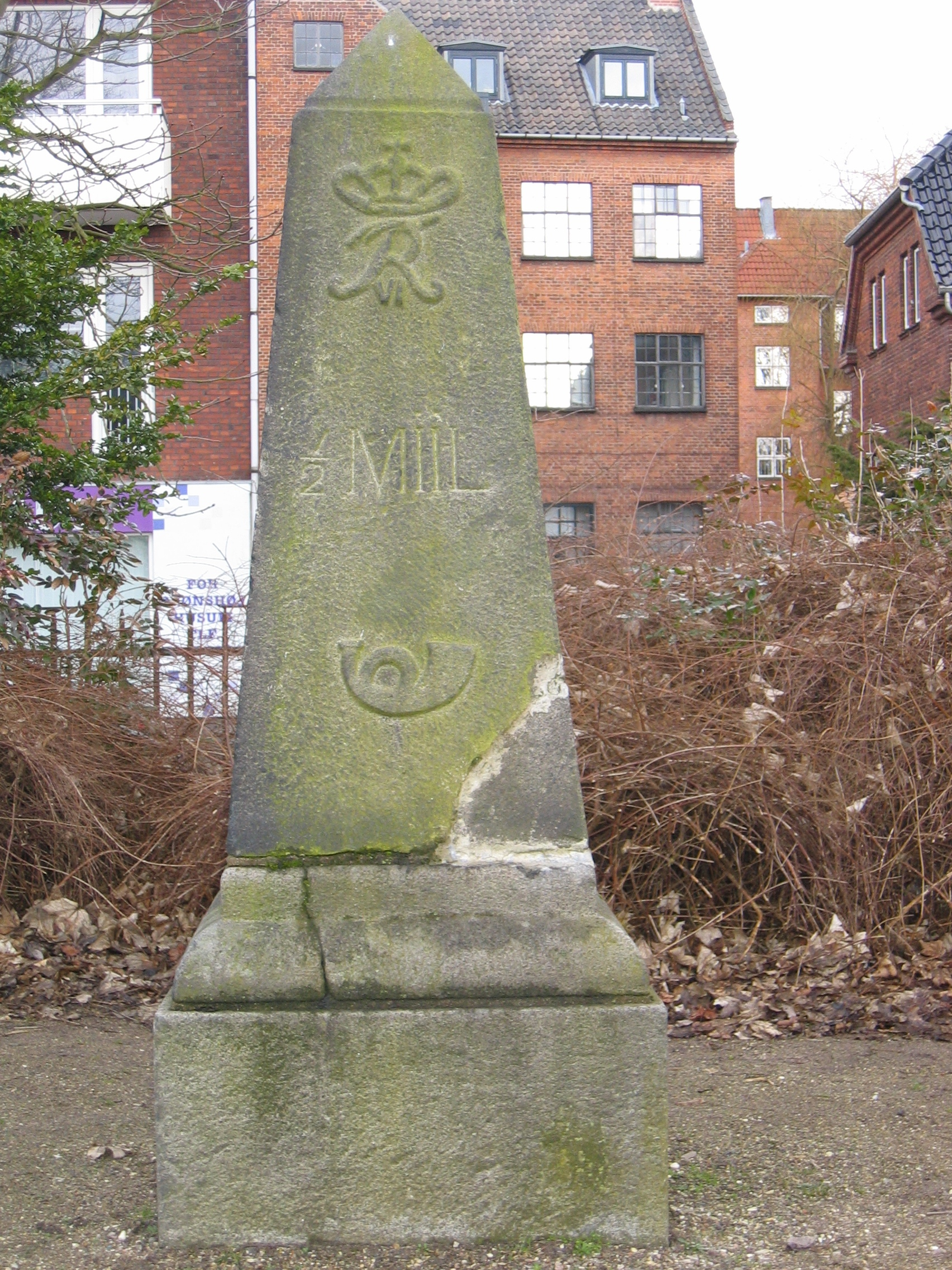 Milestone at Brønshøj, Denmark. Errected by king Frederik VI (1808-1839)